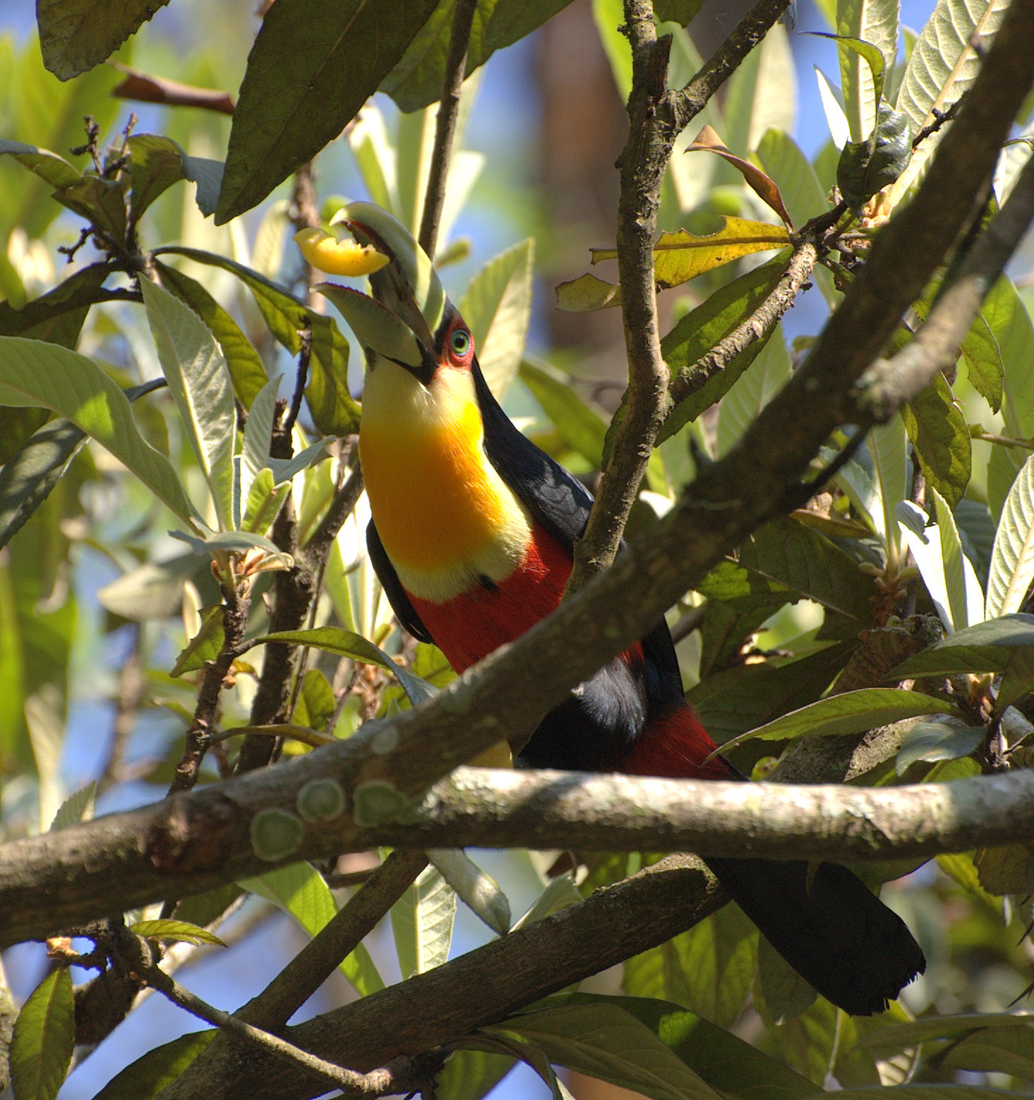 Red-breasted Toucan, also known as the Green-billed Toucaneating fruit in a tree.